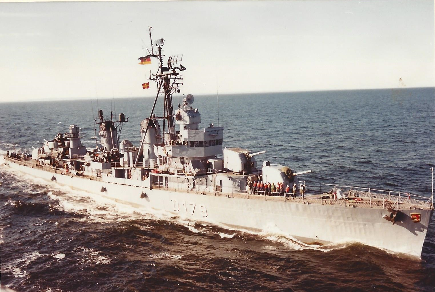 The West German Zerstörer 5 (D 179) underway in the North Sea, as seen from the guided missile destroyer Mölders (D 186).